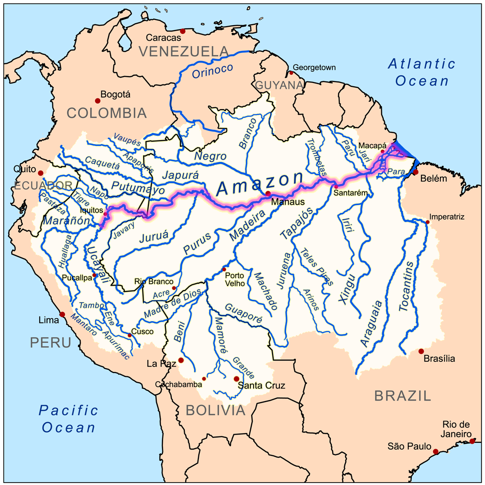 Basin of the Amazon River